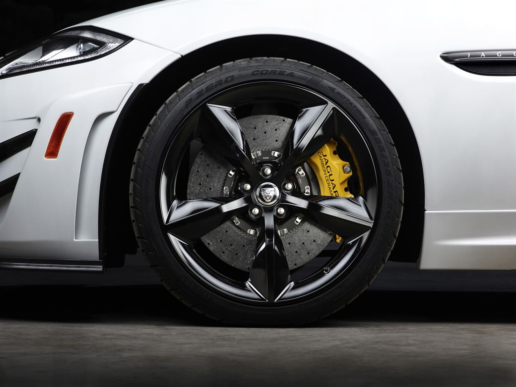 The ‘R’ badge adorns the flagship performance models in the Jaguar range. It denotes cars that are effortlessly thrilling, technically state-of-the-art and dramatically designed.